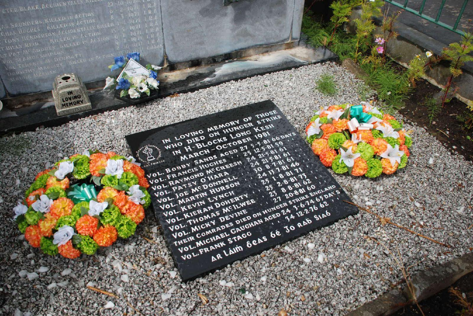 Hunger strike memorial in Milltown Cemetery, Belfast